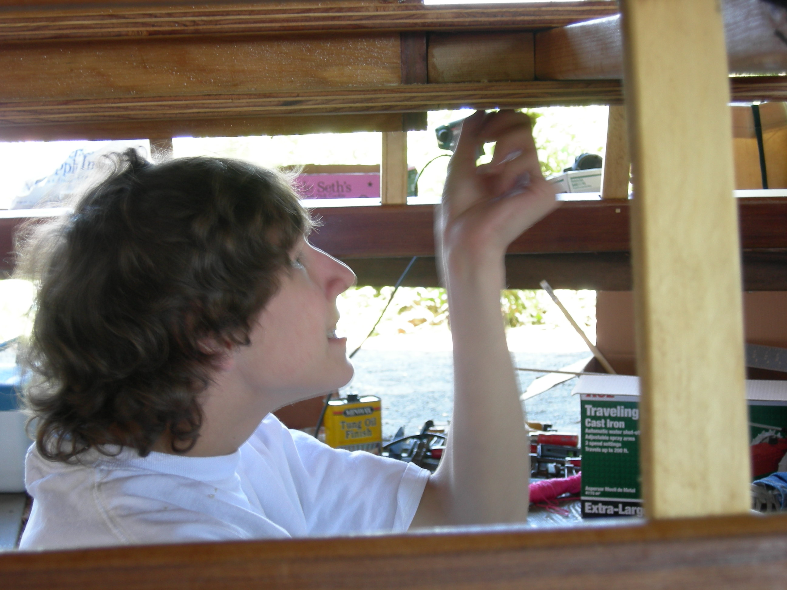 Putting final touches on a boat hull, Center for Wooden Boats, Seattle, Washington